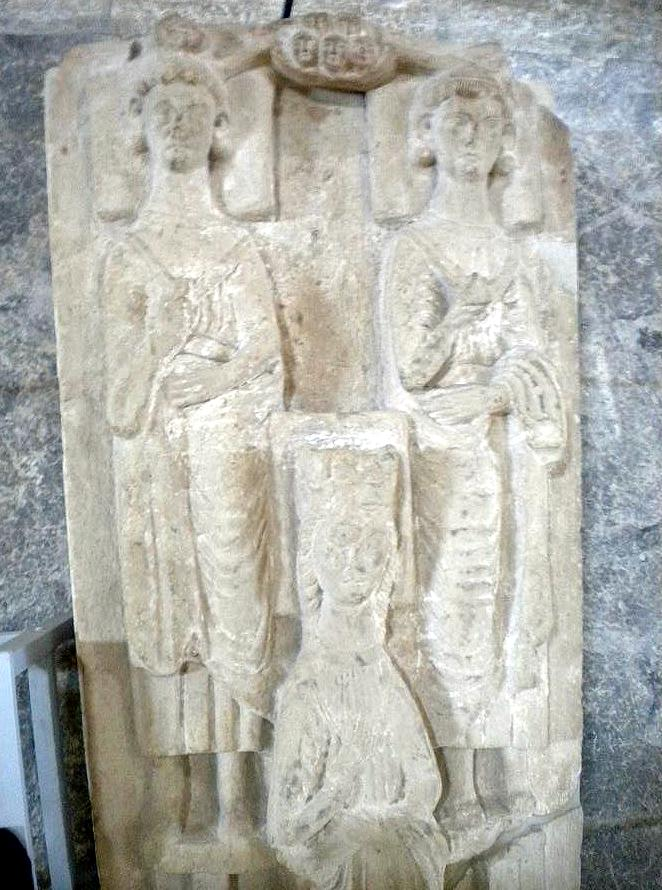 Family grave of Duke Birger of Sweden with sculptures of him, his son Duke Eric and second wife Dowager Queen Matilda of Denmark at Varnhem Church Place: Axvall, Sweden